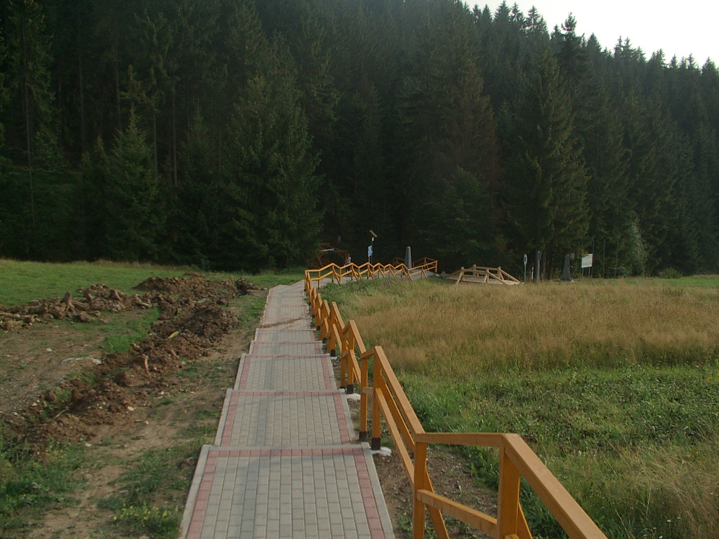 Tripoint between Poland, Czech and Slovakia; view from Polish side. Jaworzynka (POL) / Hrčava (CZE) / Čierne (SVK).